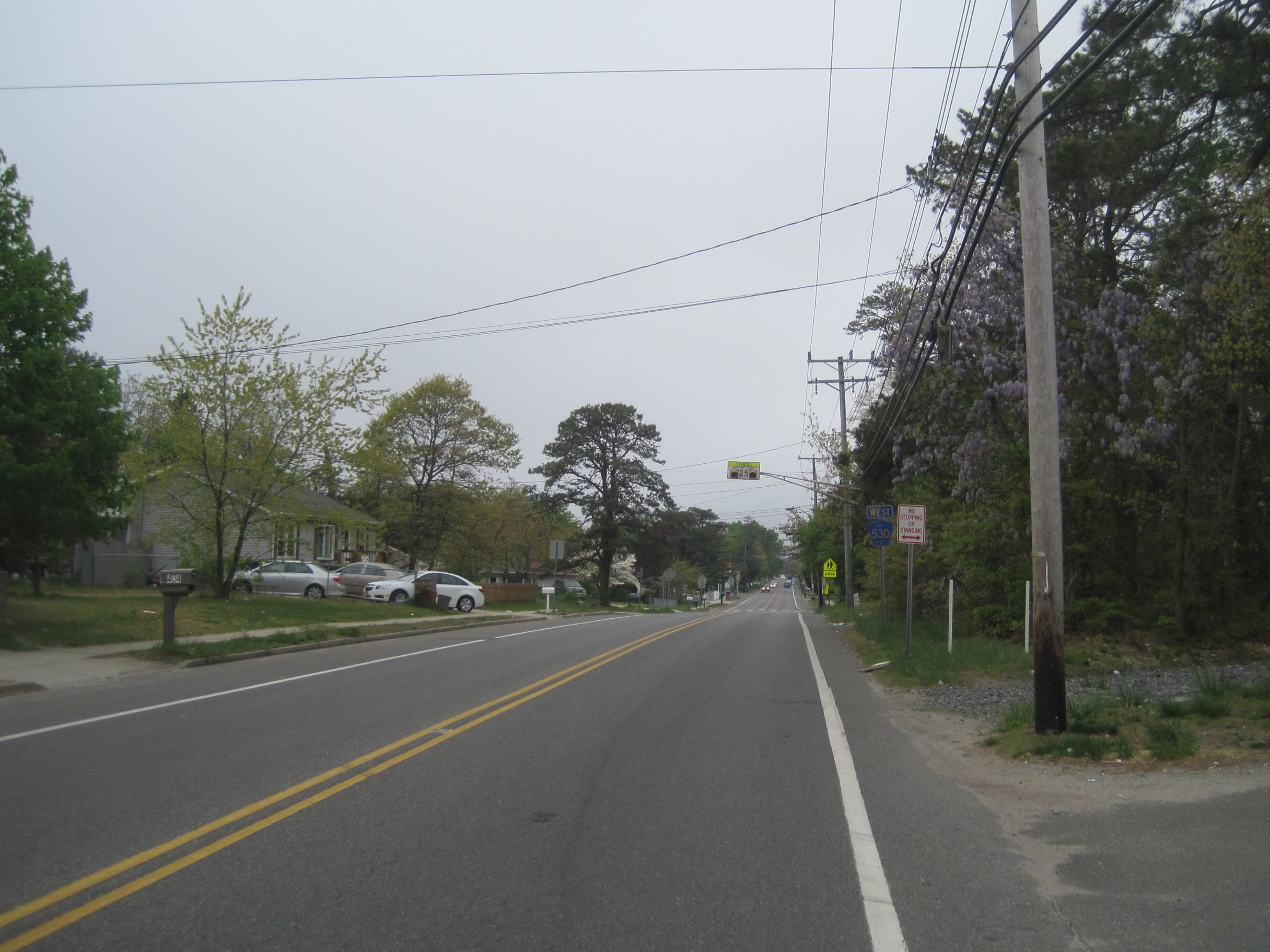 Photo showing South Toms River, New Jersey along County Route 530 (Dover Road).